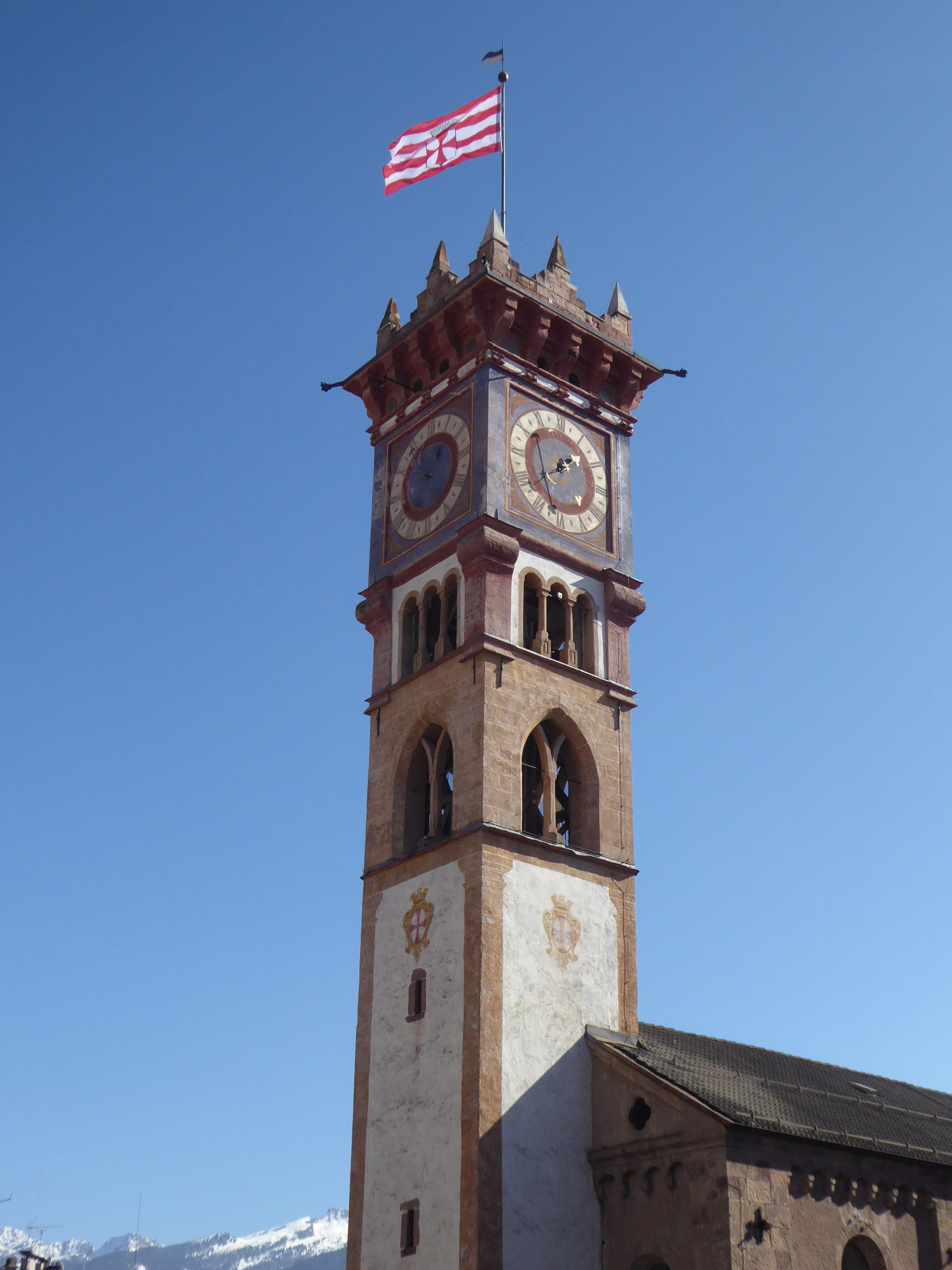 Cavalese (Trentino, Italy) - Saint Sebastian church - Belltower